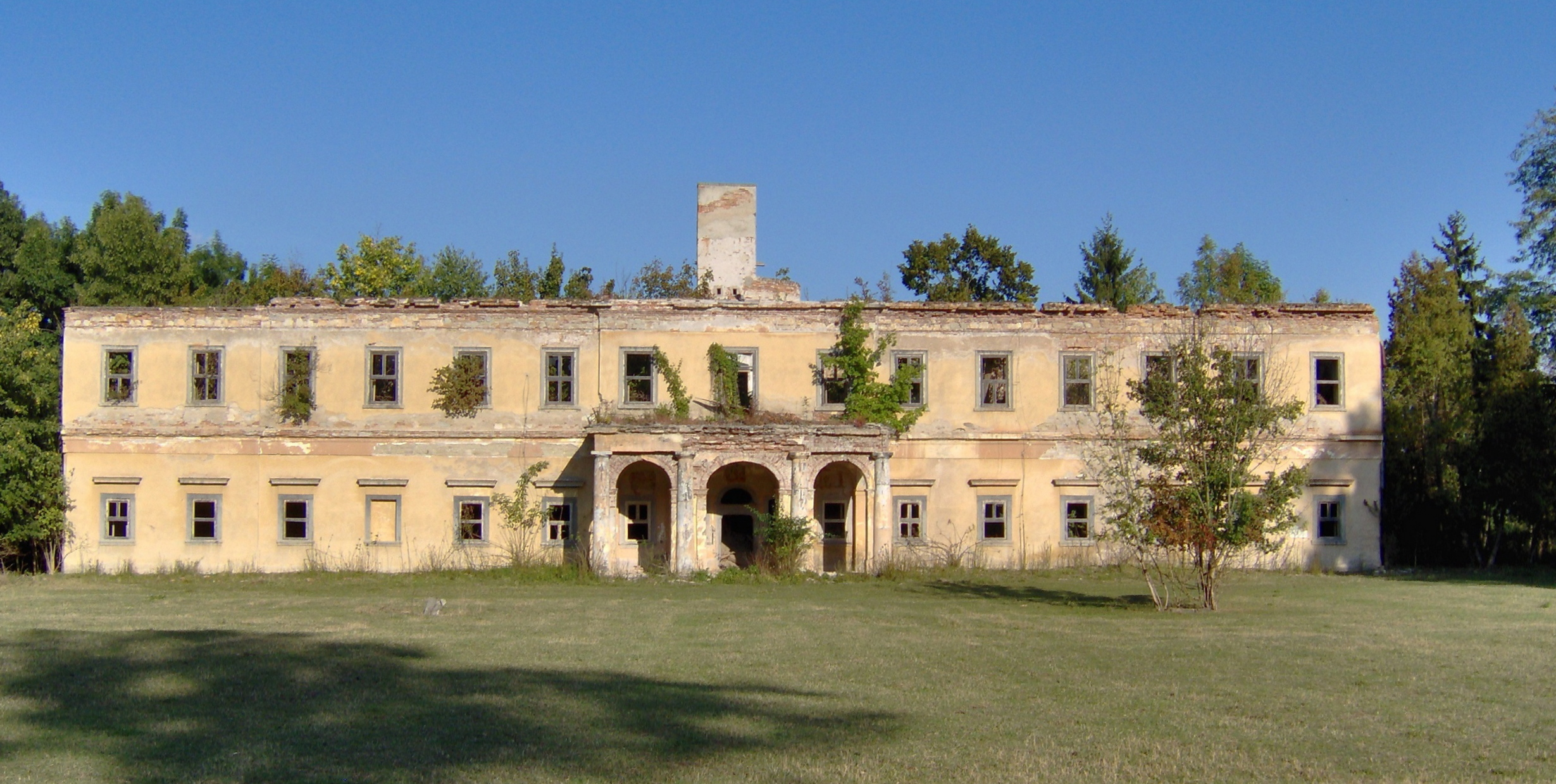 Horné Semerovce, Slovakia, manor house, 2009